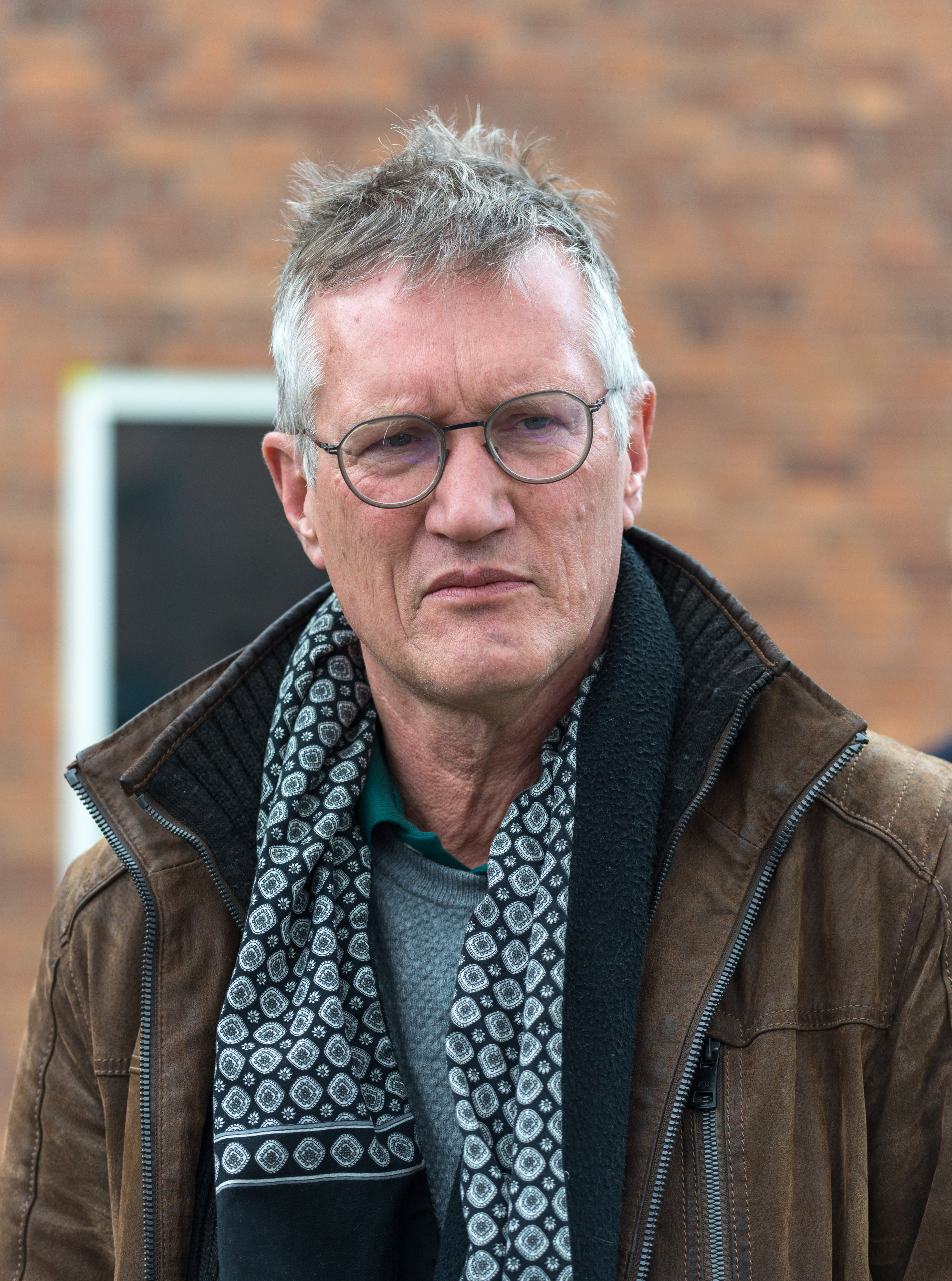 Anders Tegnell during the daily press conference outside the Karolinska Institute in Stockholm, Sweden.